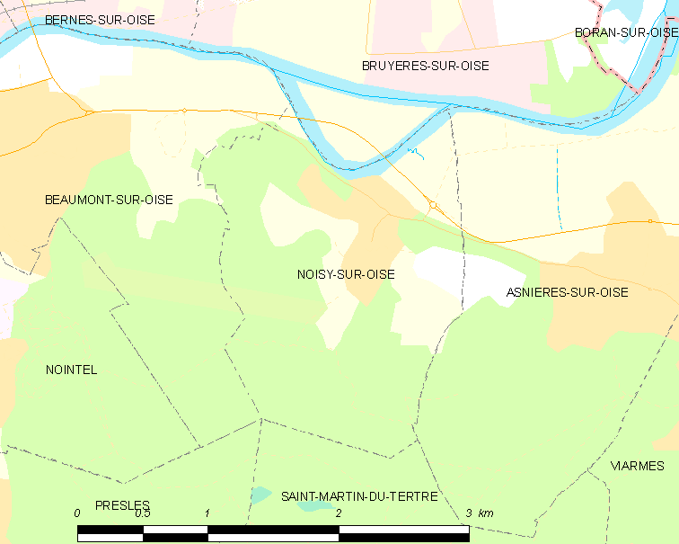 Map of French municipality Noisy-sur-Oise